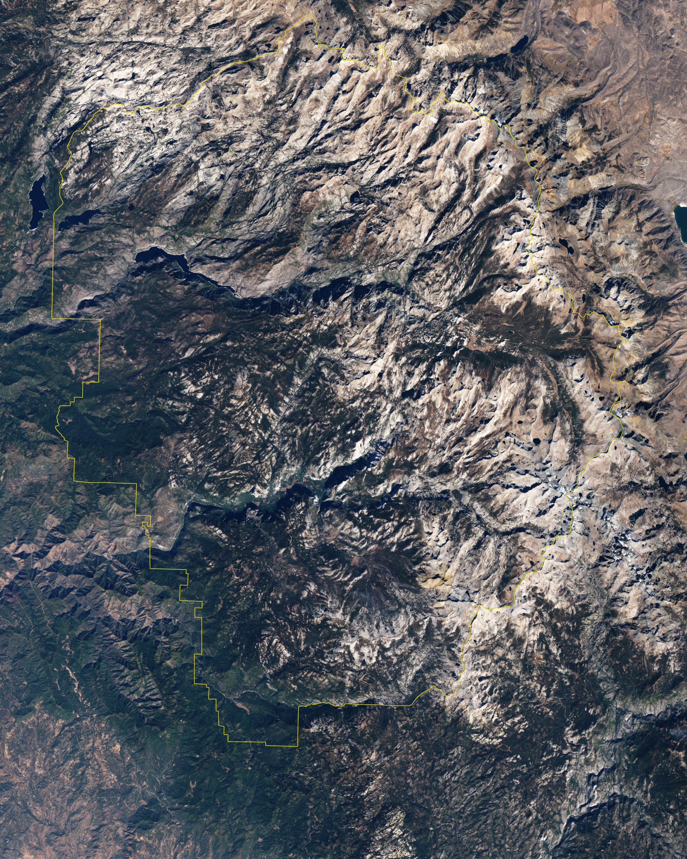 This is a true-colour image of part of Yosemite Valley. The valley runs roughly east-west, and tall granite peaks lining the valley’s southern side cast long shadows across the valley floor. On the valley’s northern side, steep slopes appear almost white. Along the valley floor, roadways form narrow, meandering lines of off-white, past parking lots, buildings, and meadows. Near the right edge of the image is Half Dome, a granite peak visible (from the ground) throughout much of eastern Yosemite Valley. Towering almost 1,525 meters (5,000 feet) above the valley floor and 2,680 meters (8,800 feet) above sea level, Half Dome appears as its name suggests—a large dome of rock sliced vertically down the middle.